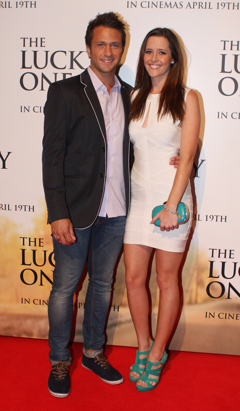 The Lucky One World Premiere At Bondi Juction, Sydney, Australia